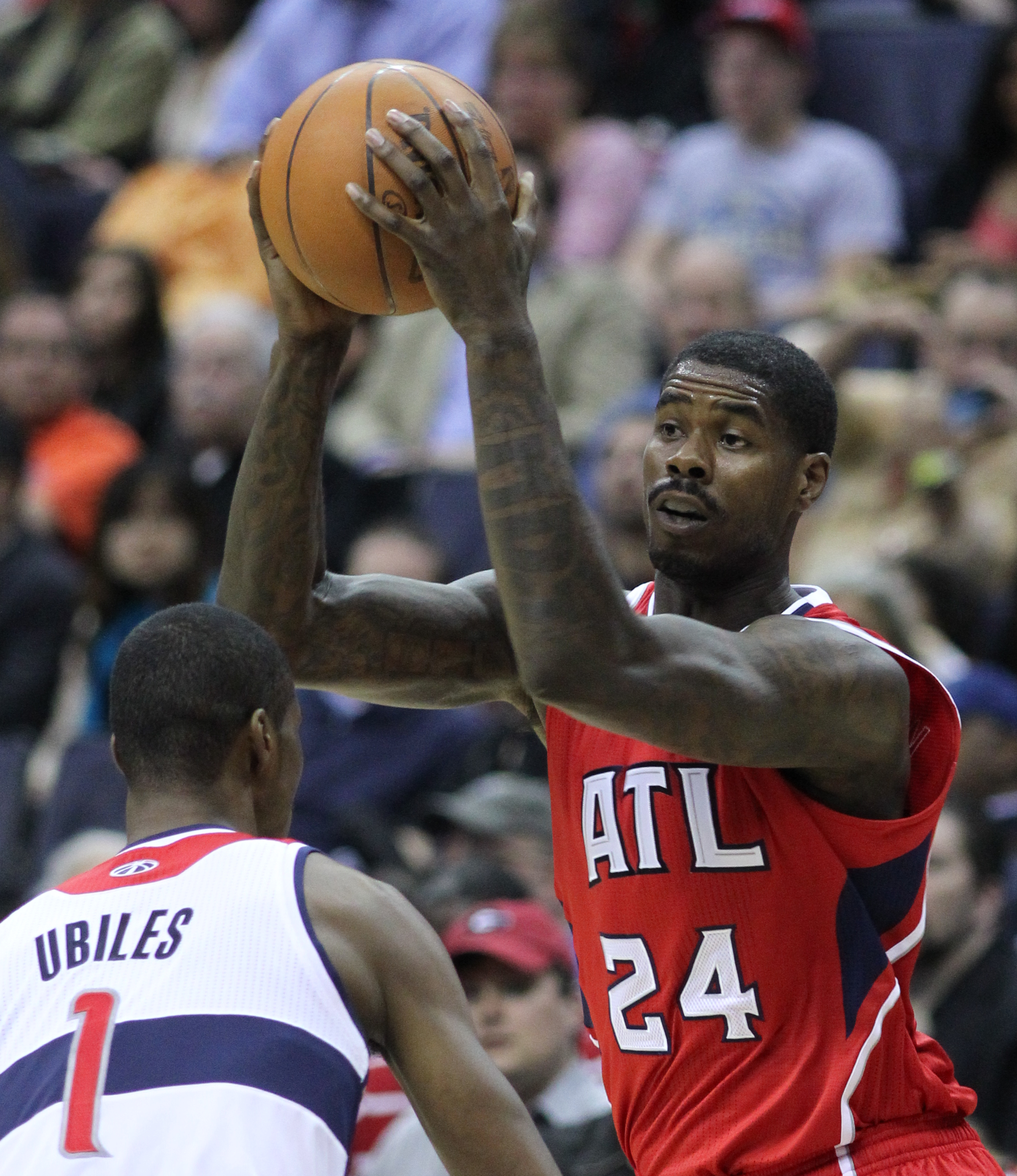 Hawks at Wizards March 24, 2012